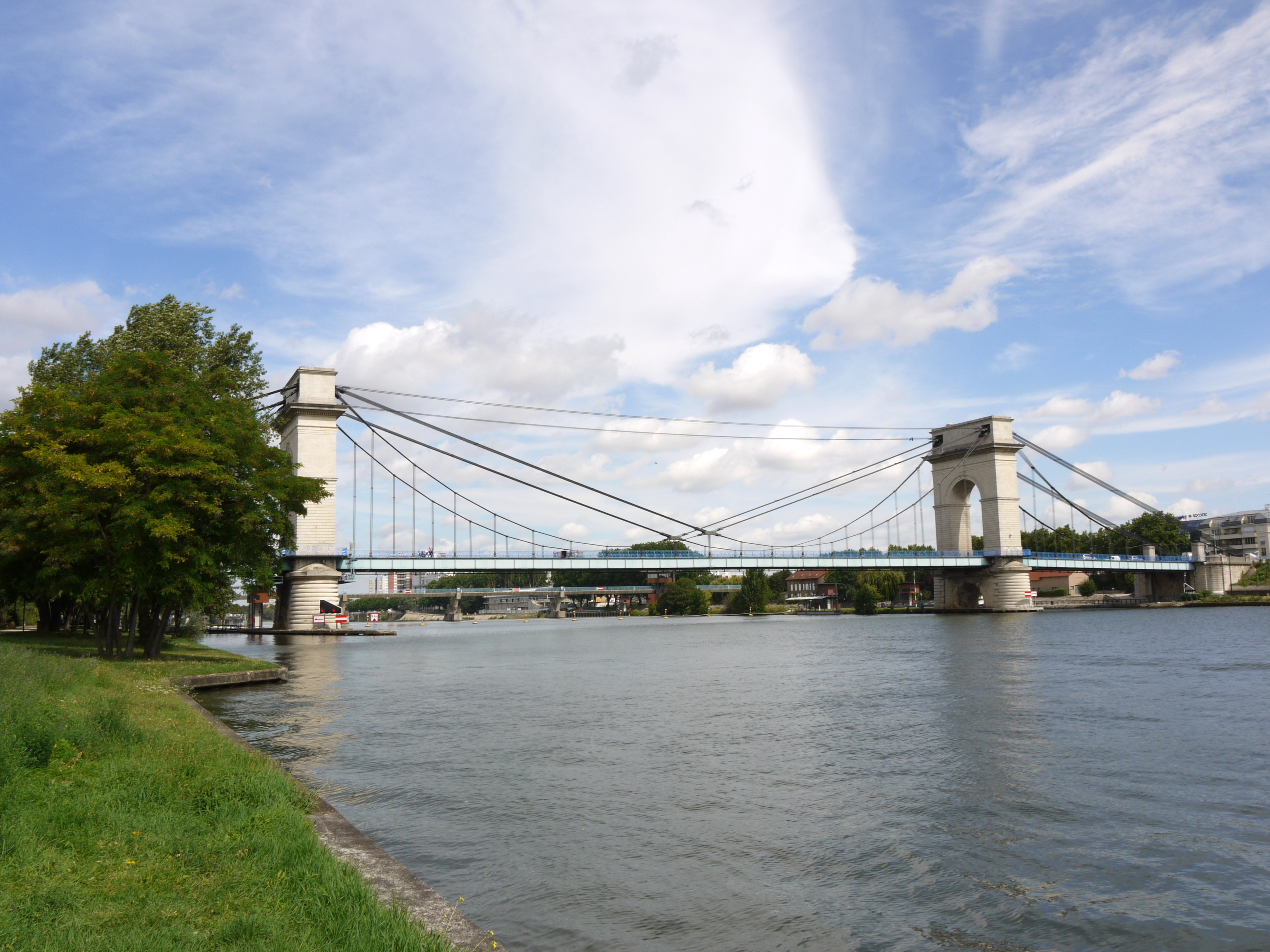 Suspension bridge of "Port à l'Anglais" on the Seine near Paris